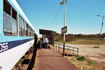 Zamudio Train Station